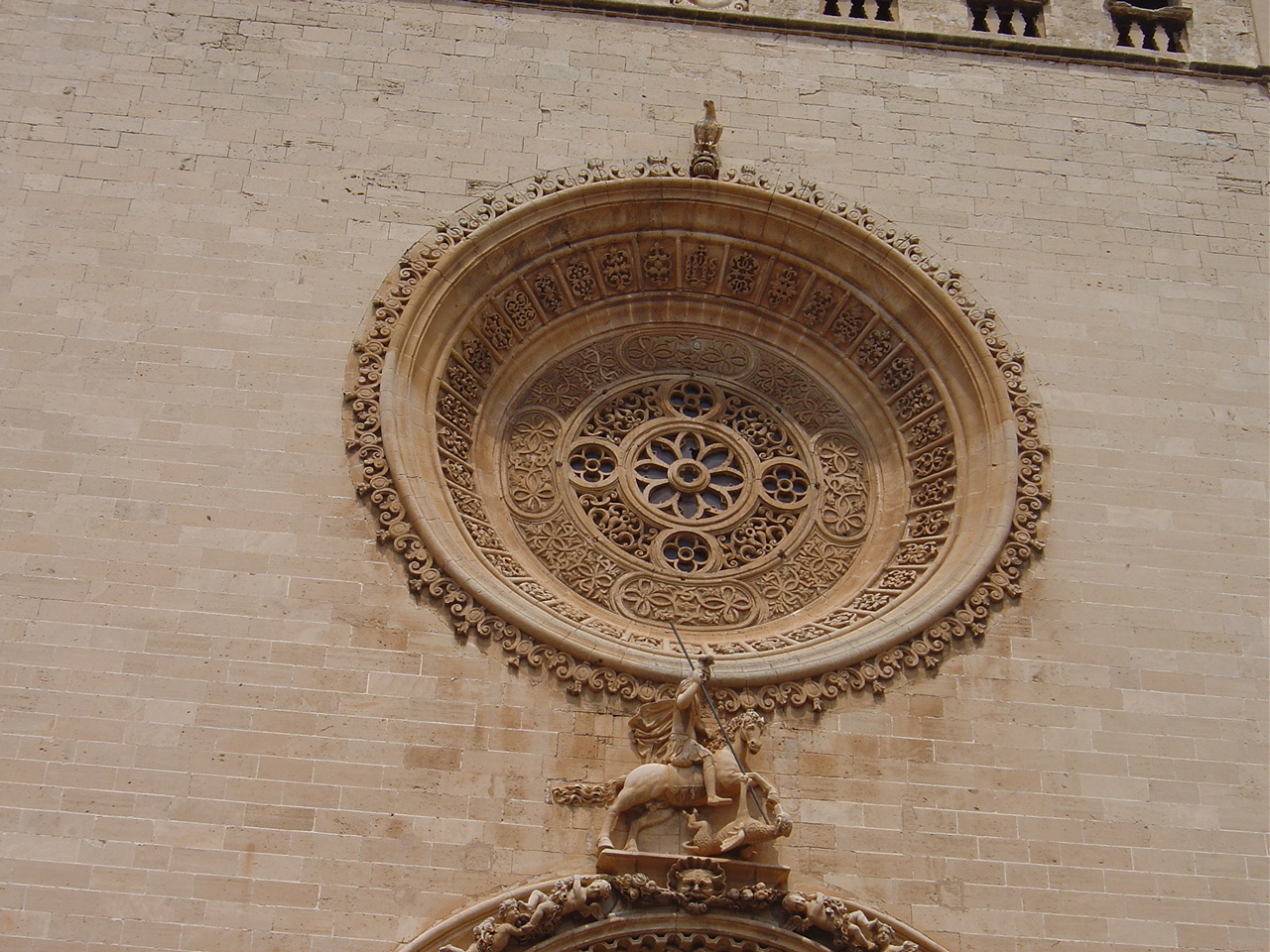 Iglesia o Basilica de San Francico. Palma de Mallorca. España